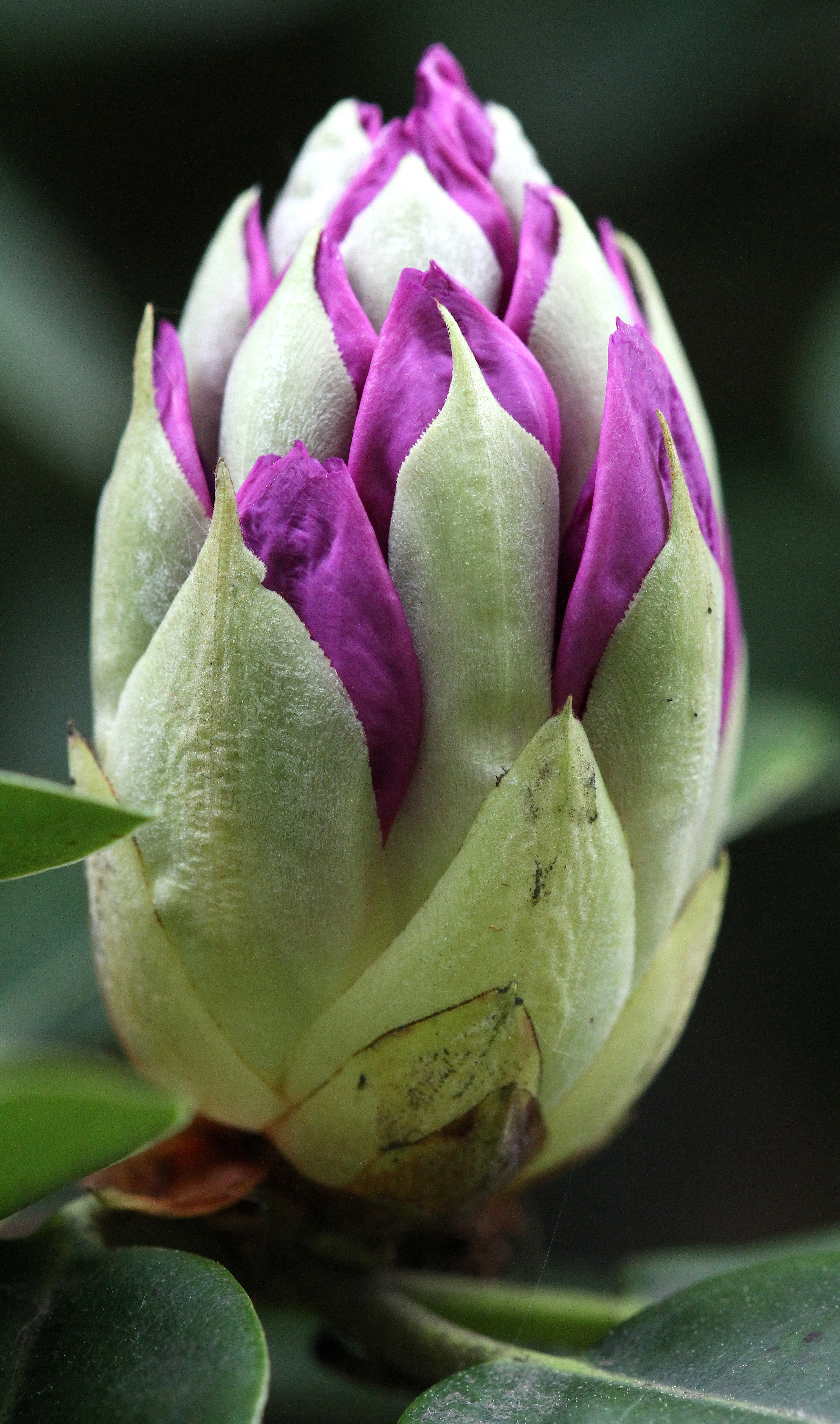 Rhododendron Bud